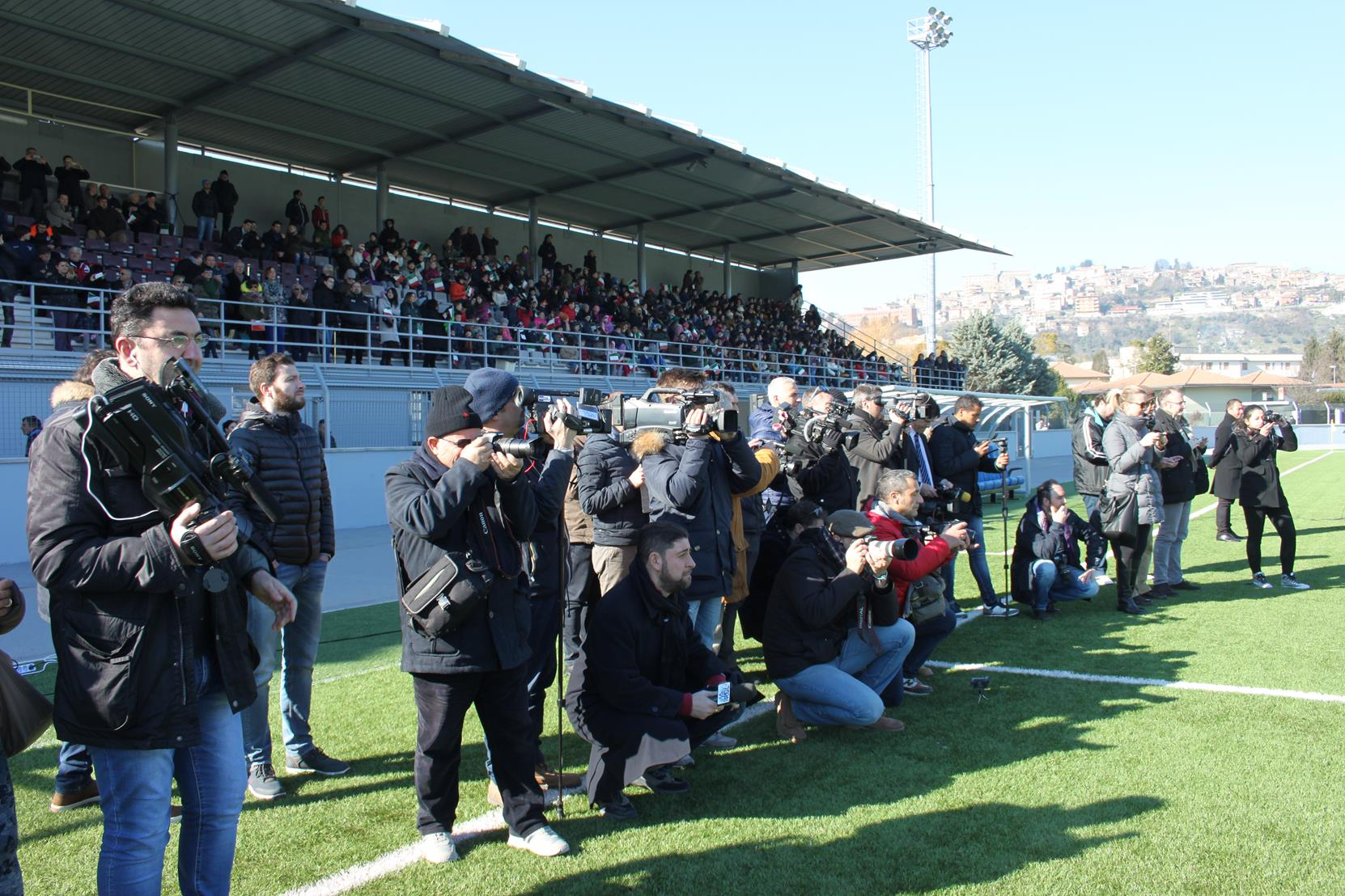 Frosinone Calcio: Cittadella dello Sport training centre in Ferentino. Under 17 Italy vs Span 1-1. Main Stand and photographers